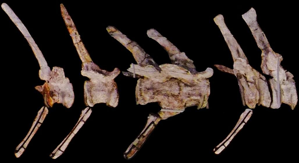 Caudal (tail) vertebrae of the spinosaurine species Ichthyovenator laosensis from the skeletal mount at the Giga Dinosaur Exhibition in the National Museum of Nature and Science, Tokyo.